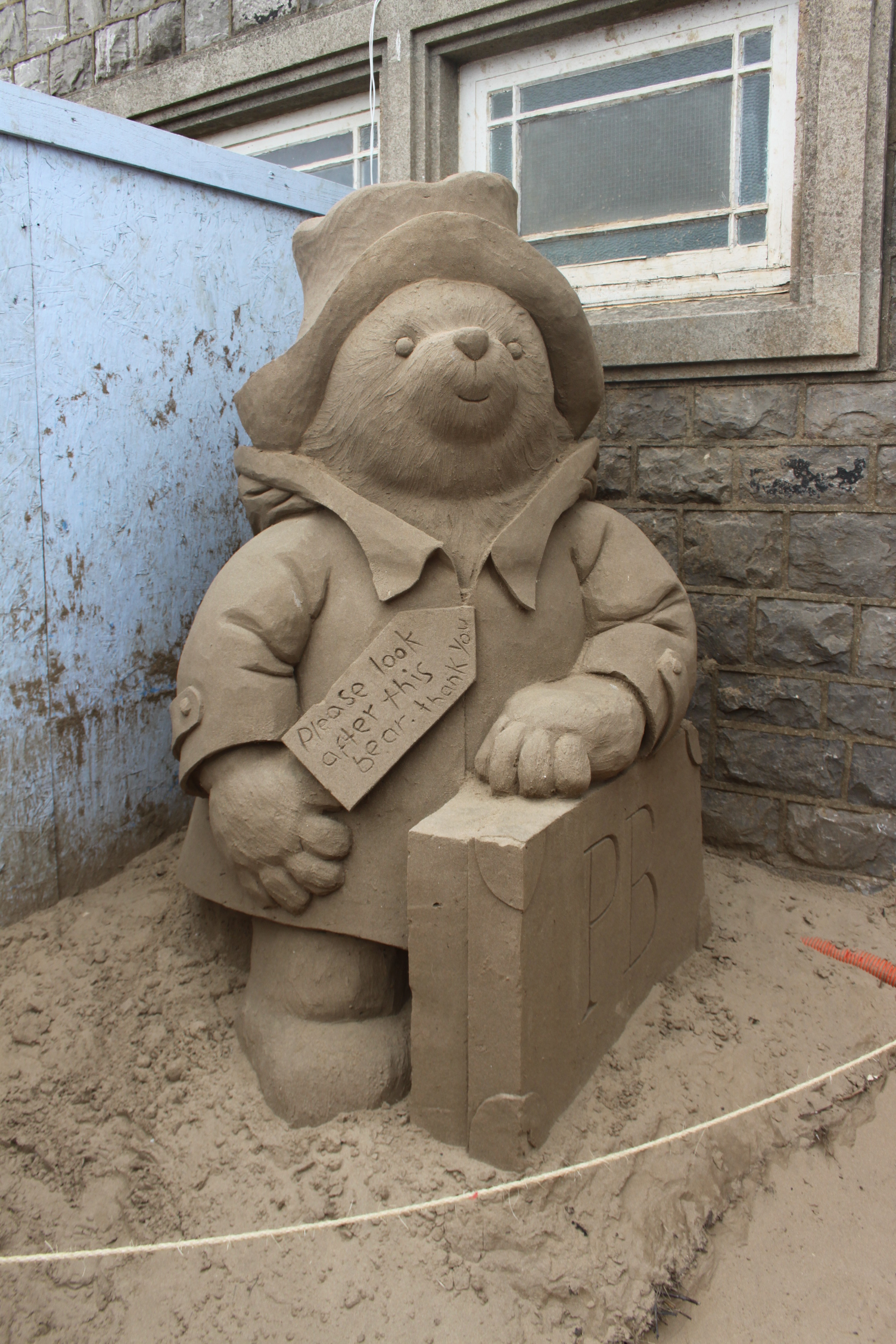 Sand Sculpture at Weston super Mare of Paddington Bear by Rachel Stubbs